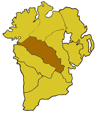 Catholic Diocese of Clogher.